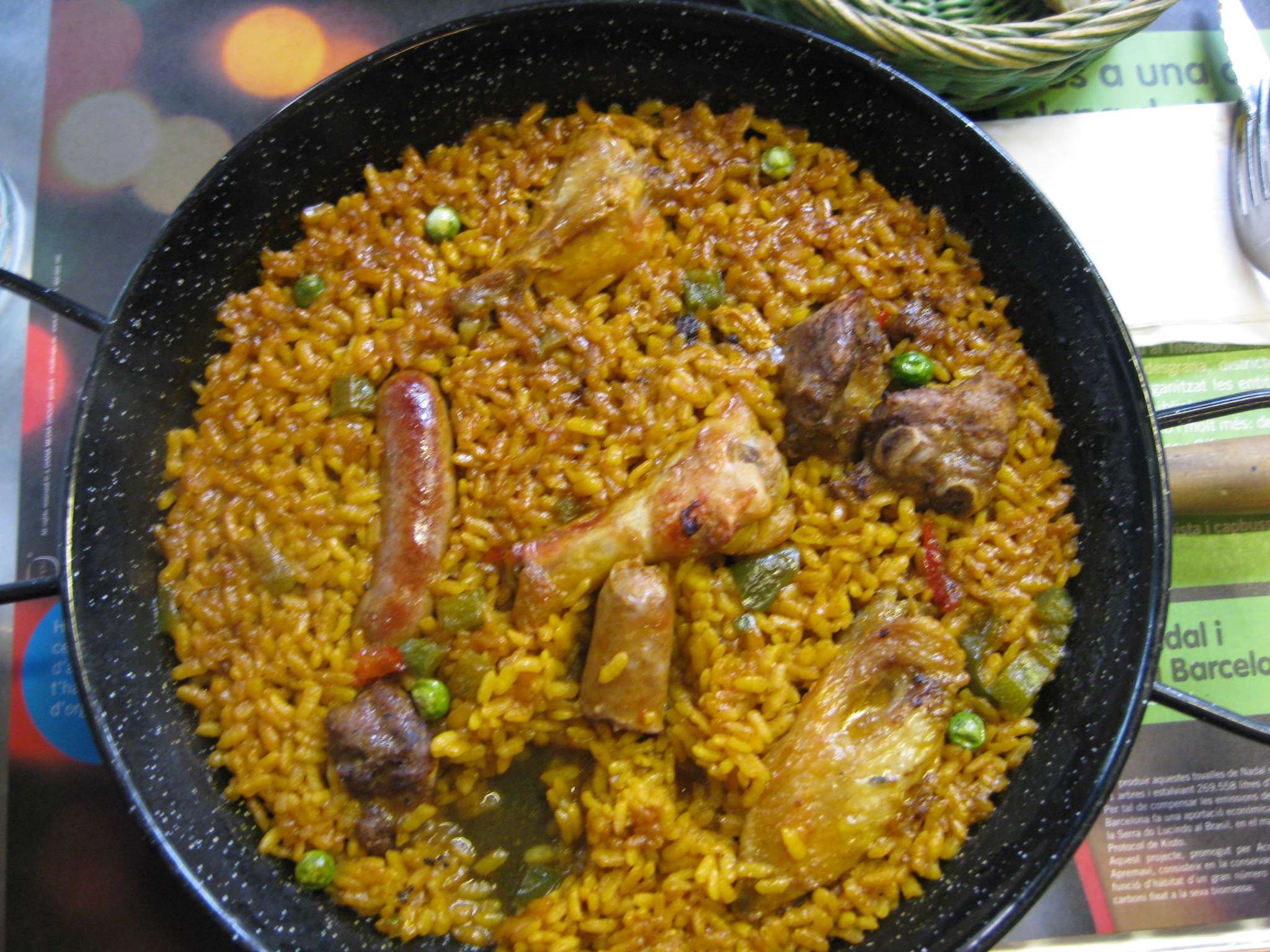 Paella with meat (photo made in Barcelona, February 2009).